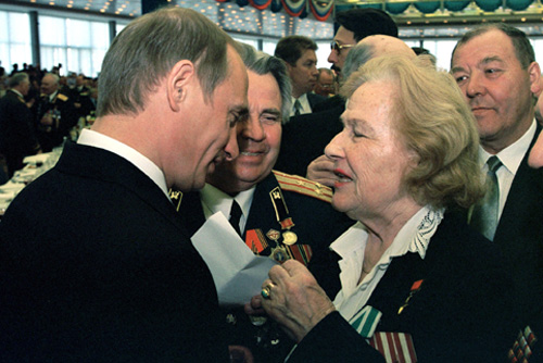 THE STATE KREMLIN PALACE, MOSCOW. President Putin with pilot and Hero of the Soviet Union Anastasia Popova during an official reception to mark the 55th anniversary of the USSR's victory in the Great Patriotic War.